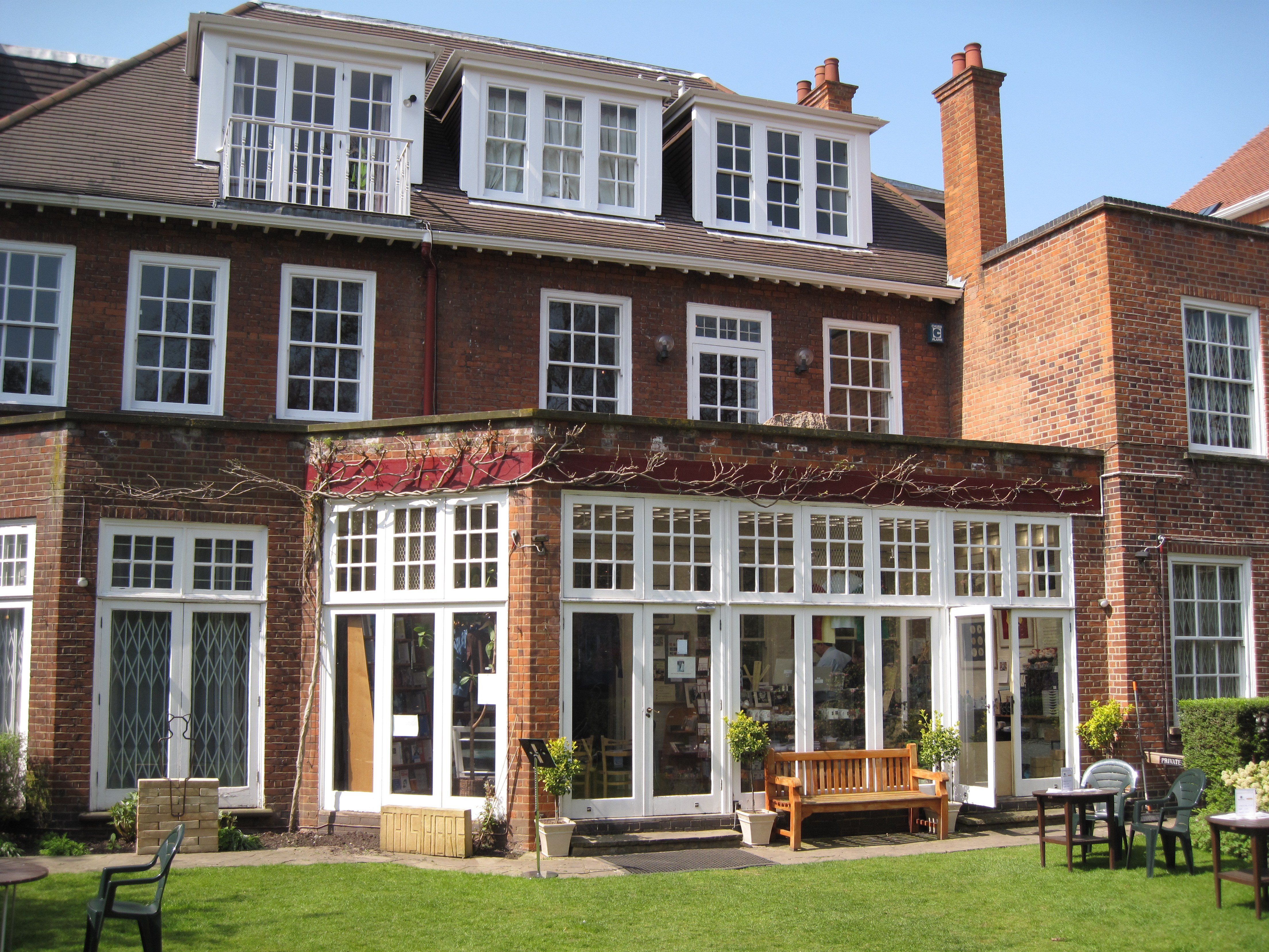 Sigmund Freud Museum London (view from the garden)